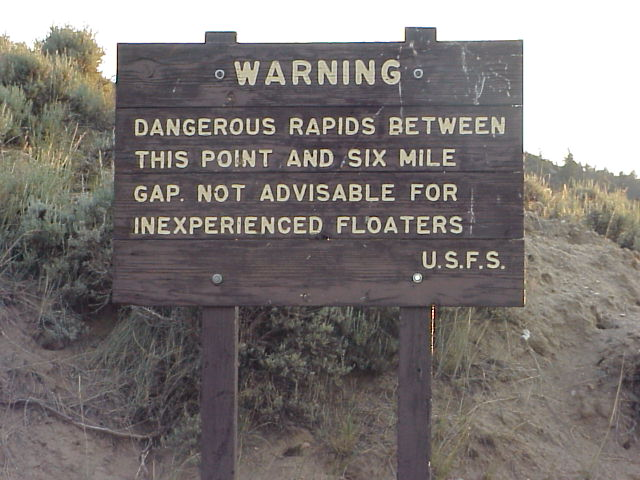 Northgate Canyon: Warning sign (North Platte River, Colorado, USA)